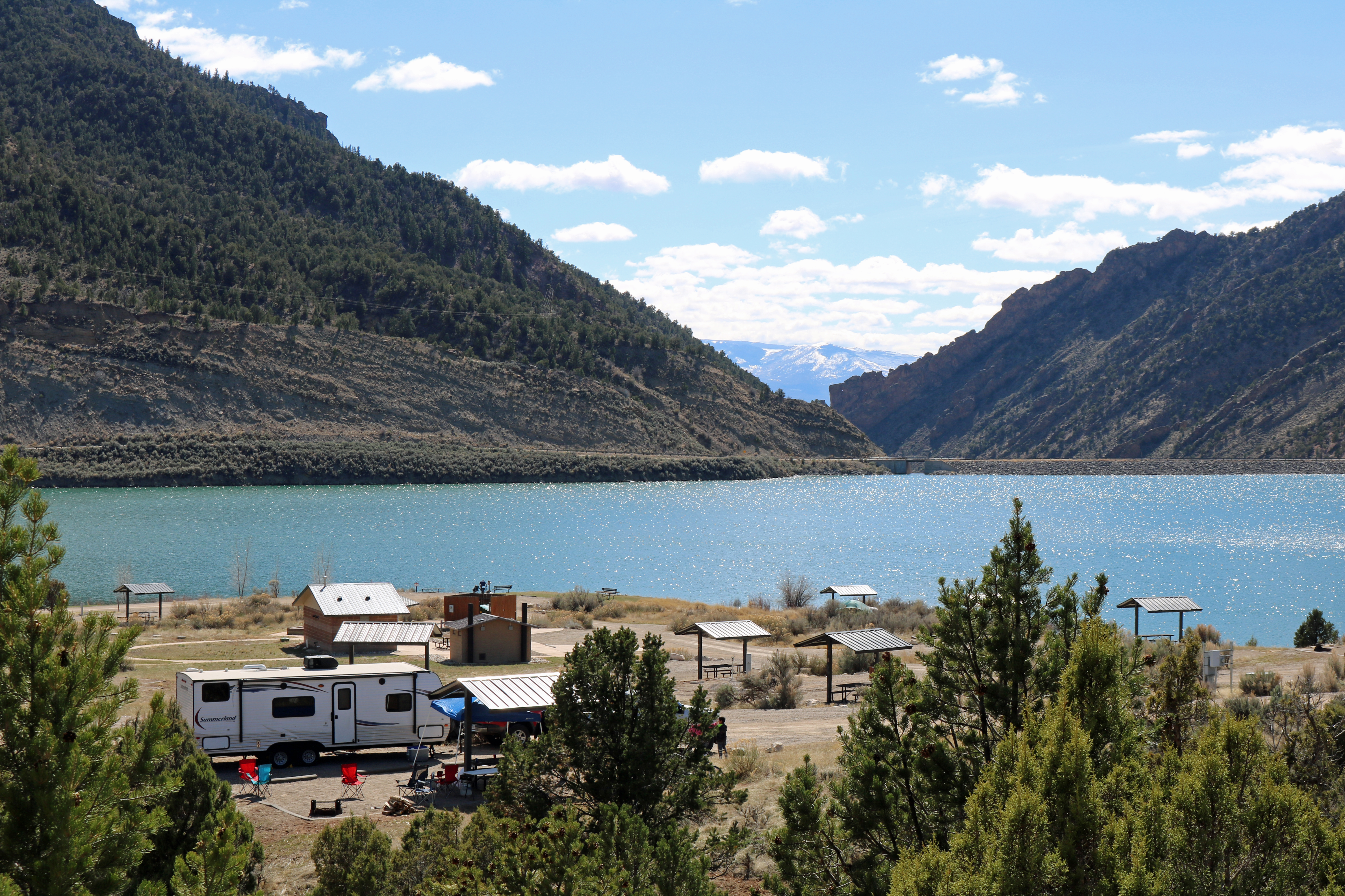 Rifle Gap State Park in Garfield County, Colorado. The view is across the Rifle Gap Reservoir towards Rifle Gap and the Grand Hogback.